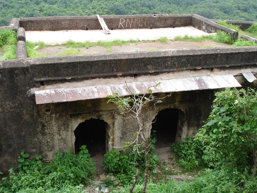 The Rani Palace at Hinglaj Fort in Mandsaur district in Madhya Pradesh, India